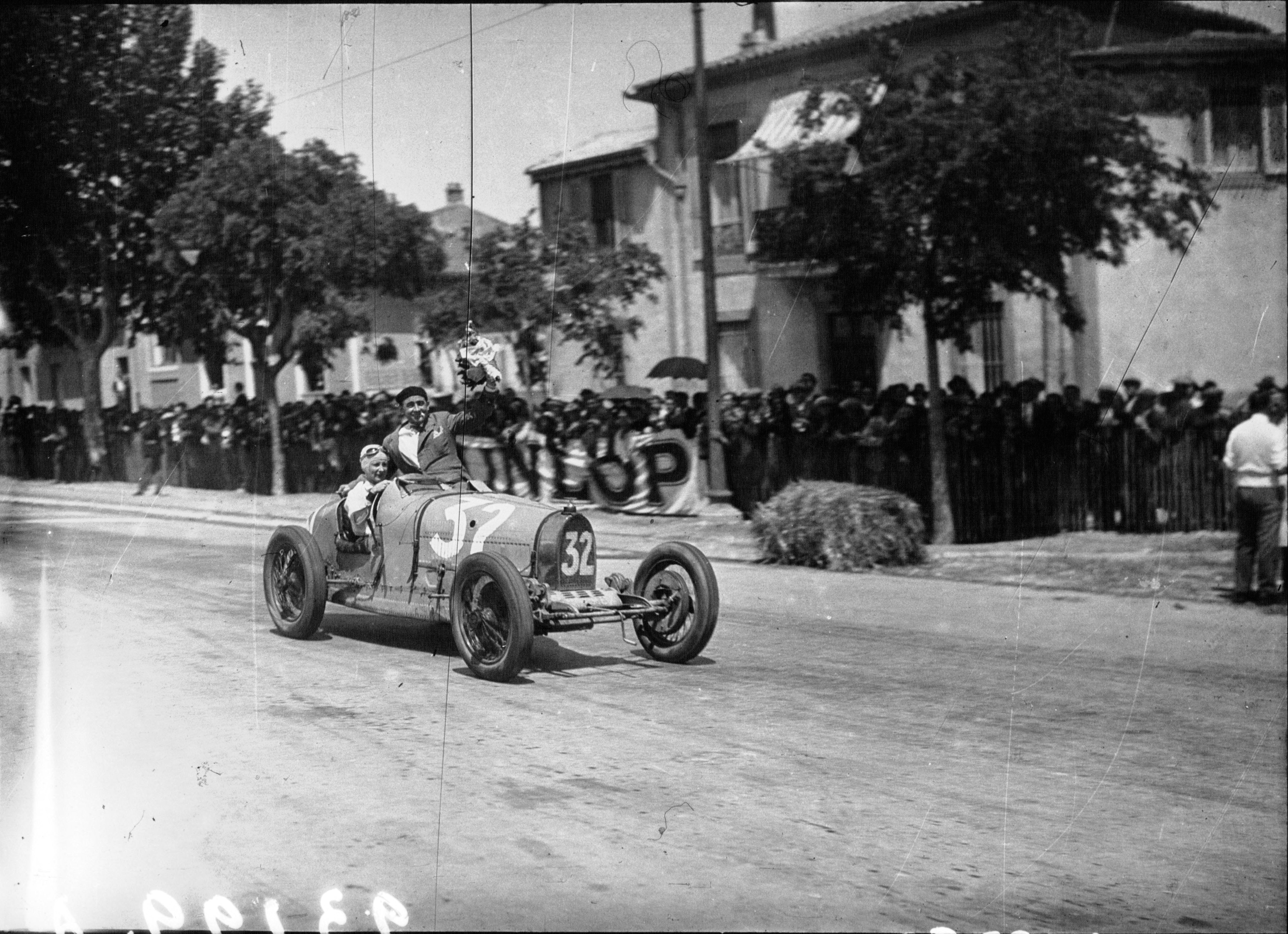 Anne-Cecile Rose-Itier in her Bugatti at the 1932 Provence Trophy.